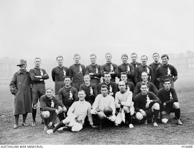 Australian Training Units team, formed by soldiers. That team played a charity game -known as the "Pioneer Exhibition Game"- held at Queen's Club in South Kensington on October 28th, 1916 to raise money for British and French Red Cross. The game was played in front of an estimated crowd of 3,000 which included the (then) Prince of Wales (later King Edward VIII) and King Manuel II of Portugal. The jerseys were red with a kangaroo as emblem.